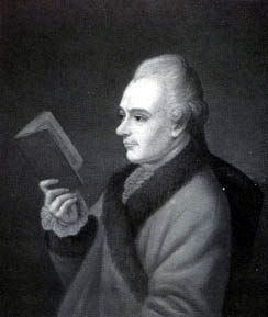 Portrait of Joseph Frederick Wallet DesBarres